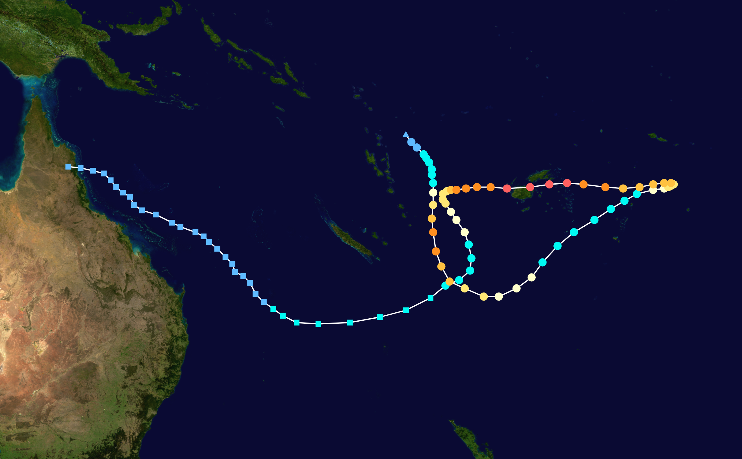 Track map of Severe Tropical Cyclone Winston of the 2015-16 South Pacific cyclone season and the 2015-16 Australian region cyclone season. The points show the location of the storm at 6-hour intervals. The colour represents the storm's maximum sustained wind speeds as classified in the Saffir–Simpson scale (see below), and the shape of the data points represent the nature of the storm, according to the legend below. Saffir–Simpson scale Tropical depression≤38 mph≤62 km/h Category 3111–129 mph178–208 km/h Tropical storm39–73 mph63–118 km/h Category 4130–156 mph209–251 km/h Category 174–95 mph119–153 km/h Category 5≥157 mph≥252 km/h Category 296–110 mph154–177 km/h Unknown Storm type Tropical cyclone Subtropical cyclone Extratropical cyclone / Remnant low / Tropical disturbance / Monsoon depression